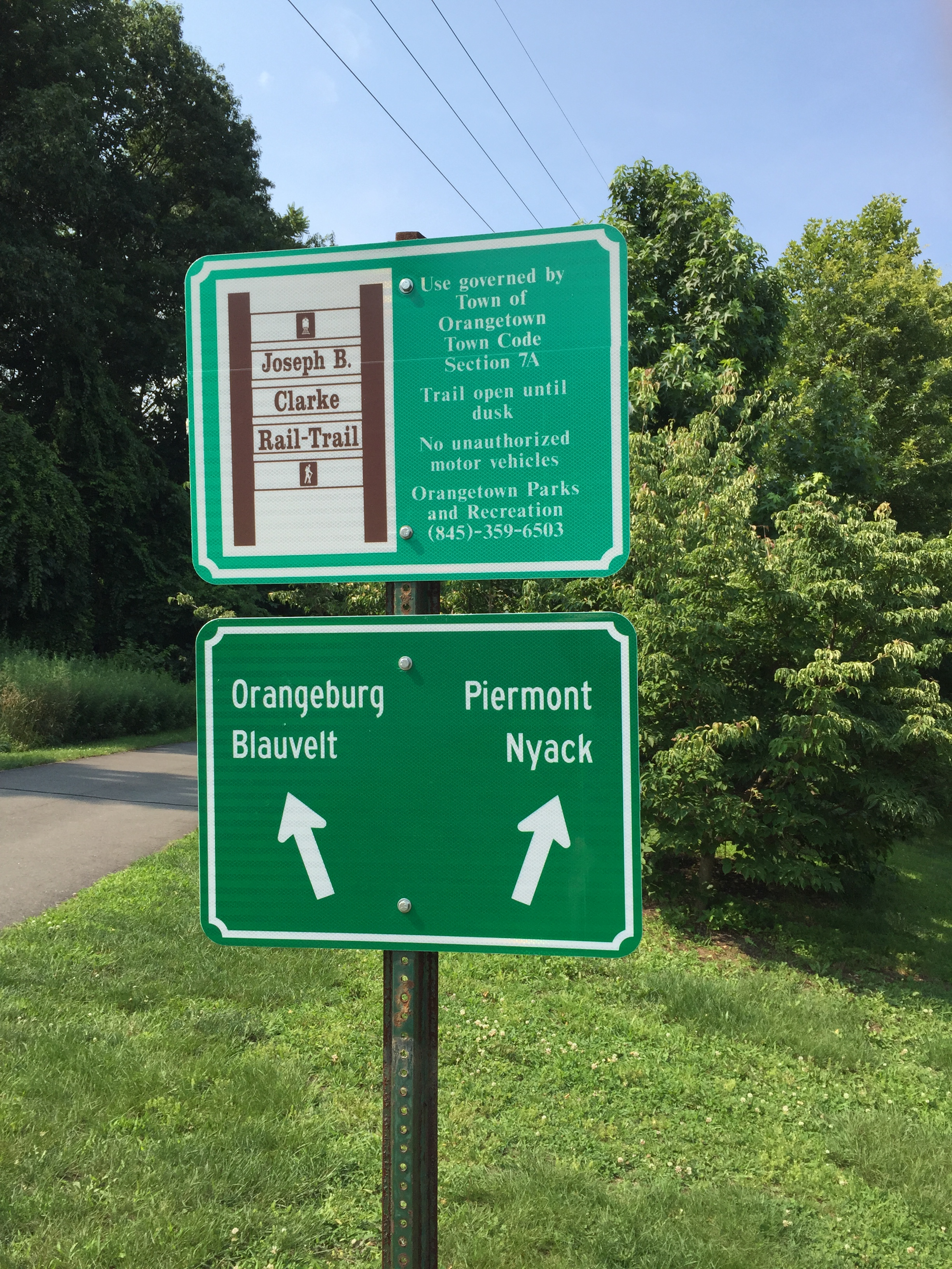 Clarke Trail & Old Erie Path Junction in Sparkill, NY